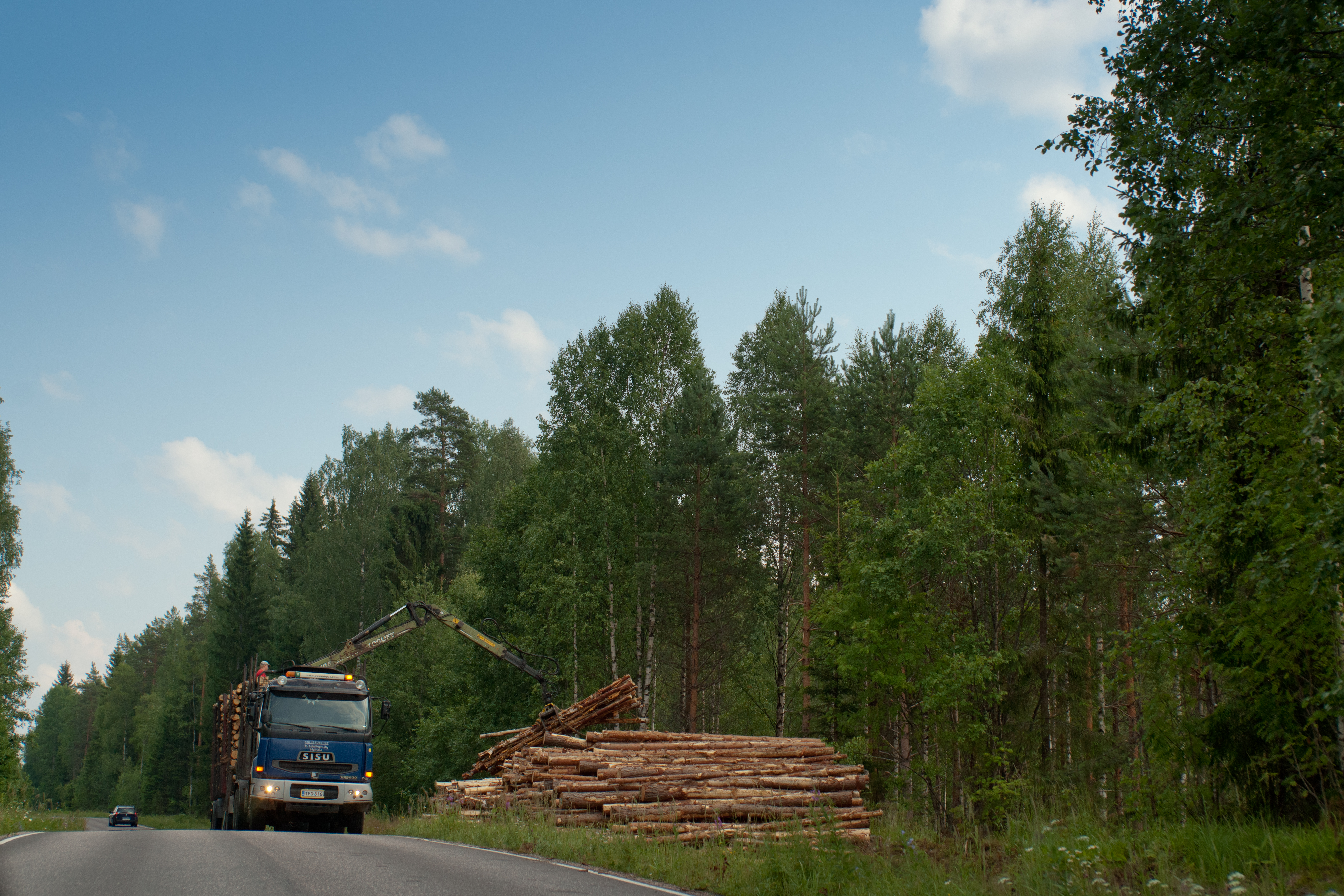 Wood exploitation in Heinola, Finland